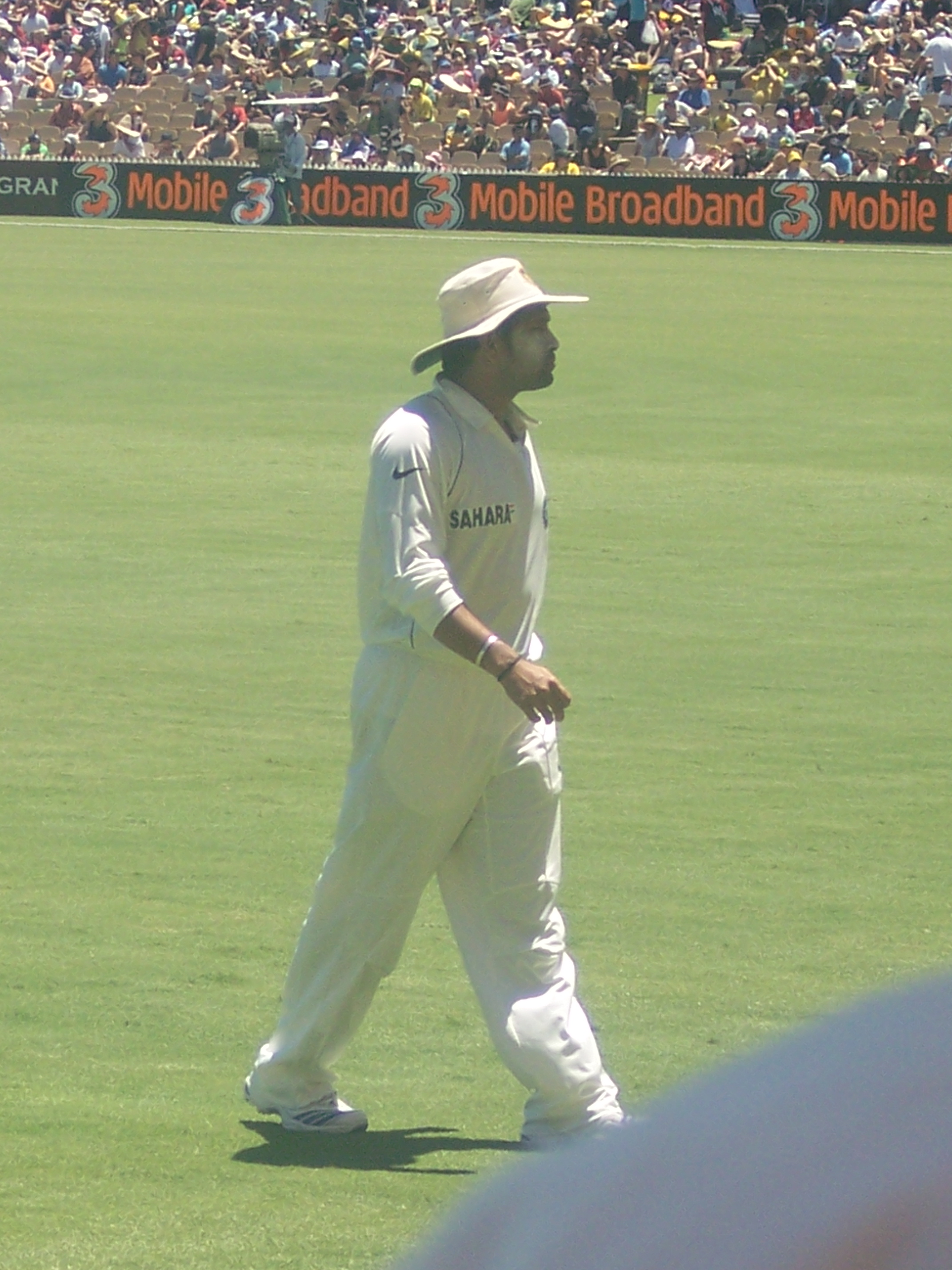 Sachin Tendulkar, Indian cricketer. 4 Test series vs Australia at Adelaide Oval